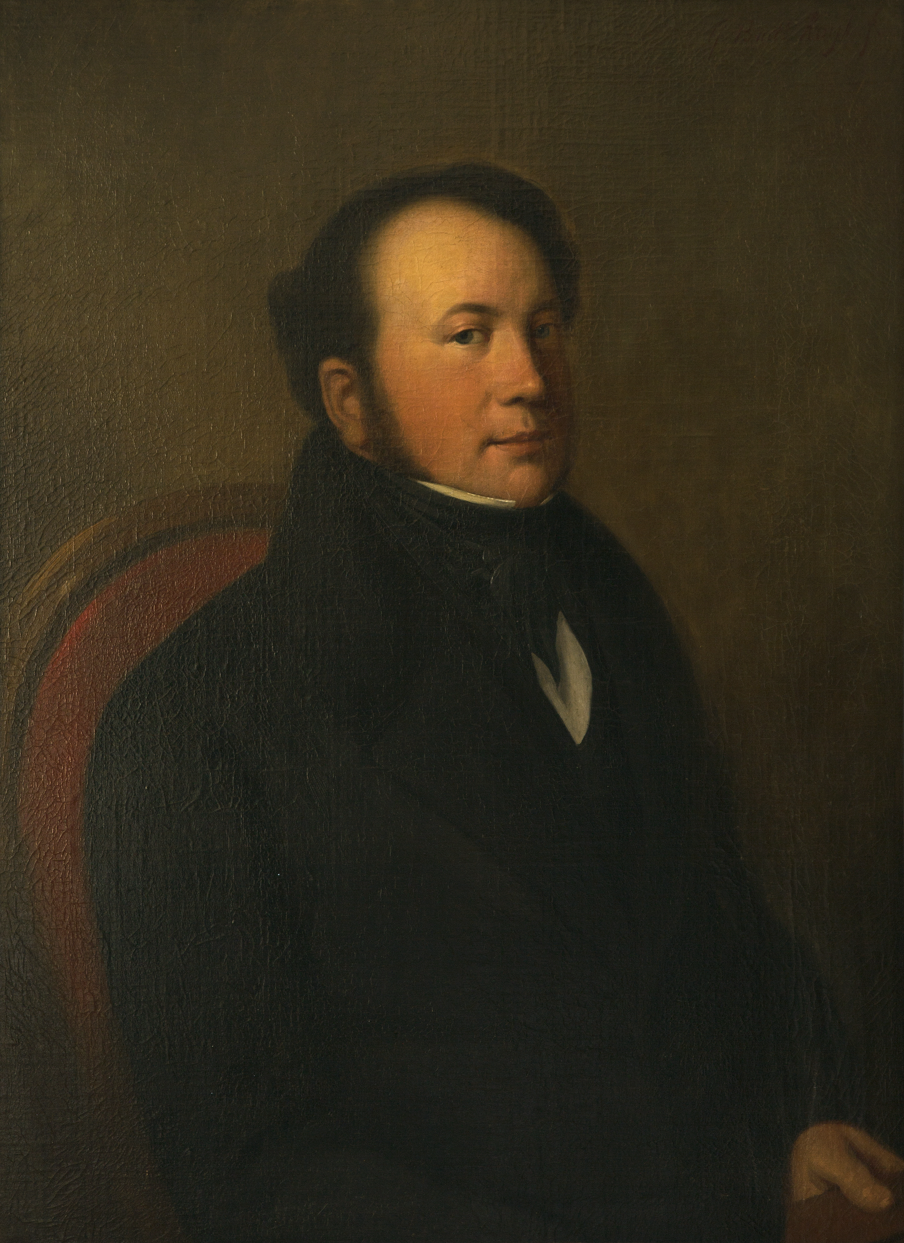 Portrait by Gijsbert Buitendijk Kuyk (1805 - 1884)